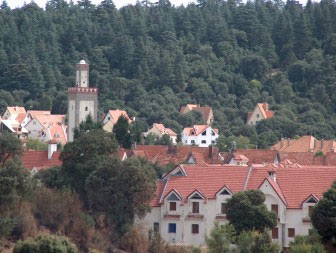 Ifrane Downtown